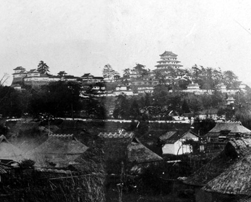 panorama of Tsuyama Castle old poto(taken about 1872 or 1873)